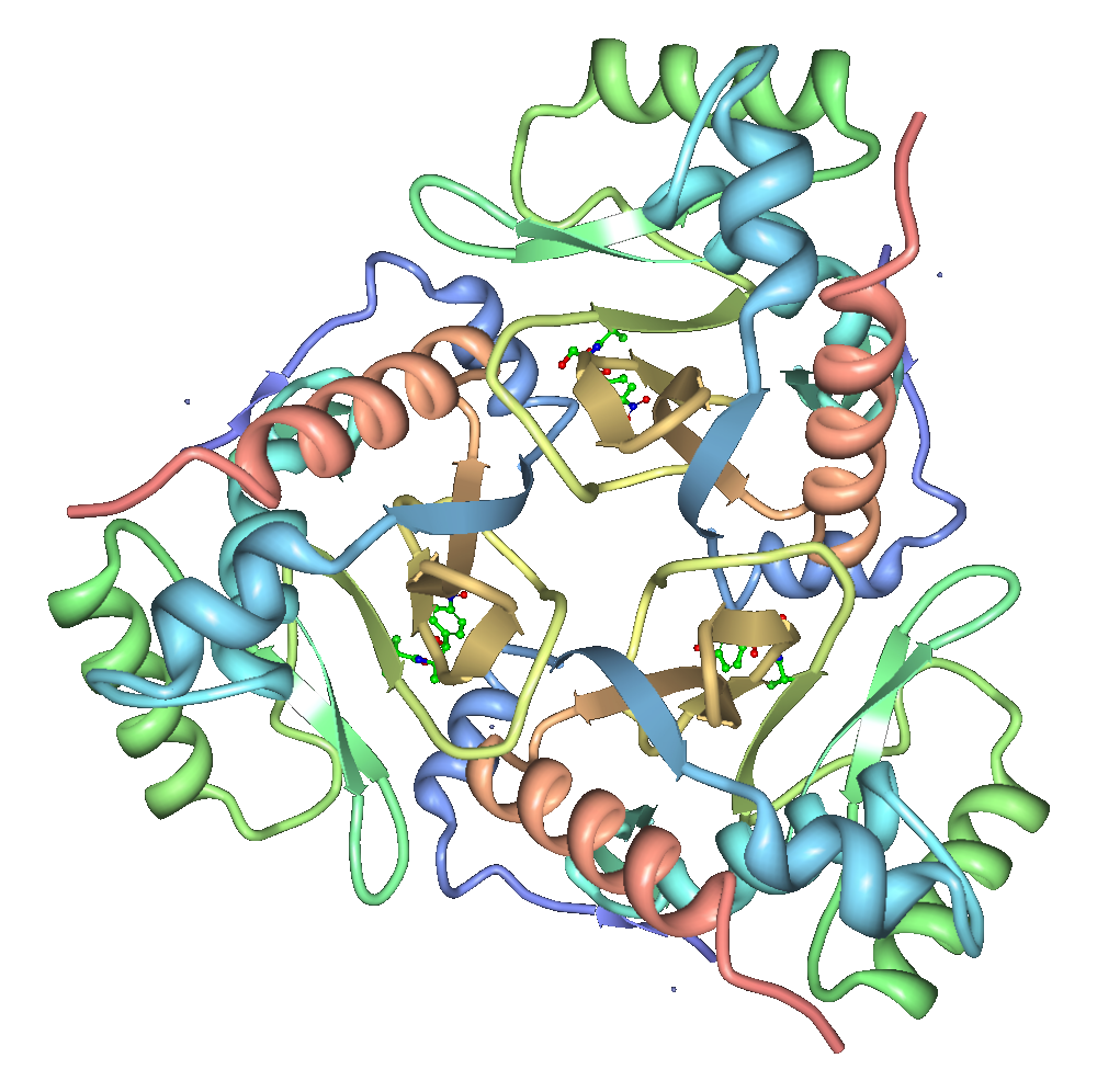 Ribbon diagram of a chloramphenicol acetyltransferase trimer with chloramphenicol bound. Created using MBT SimpleViewer [J.L. Moreland, A.Gramada, O.V. Buzko, Qing Zhang and P.E. Bourne (2005). "The Molecular Biology Toolkit (MBT): A Modular Platform for Developing Molecular Visualization Applications". BMC Bioinformatics 6:21.] and GIMP.